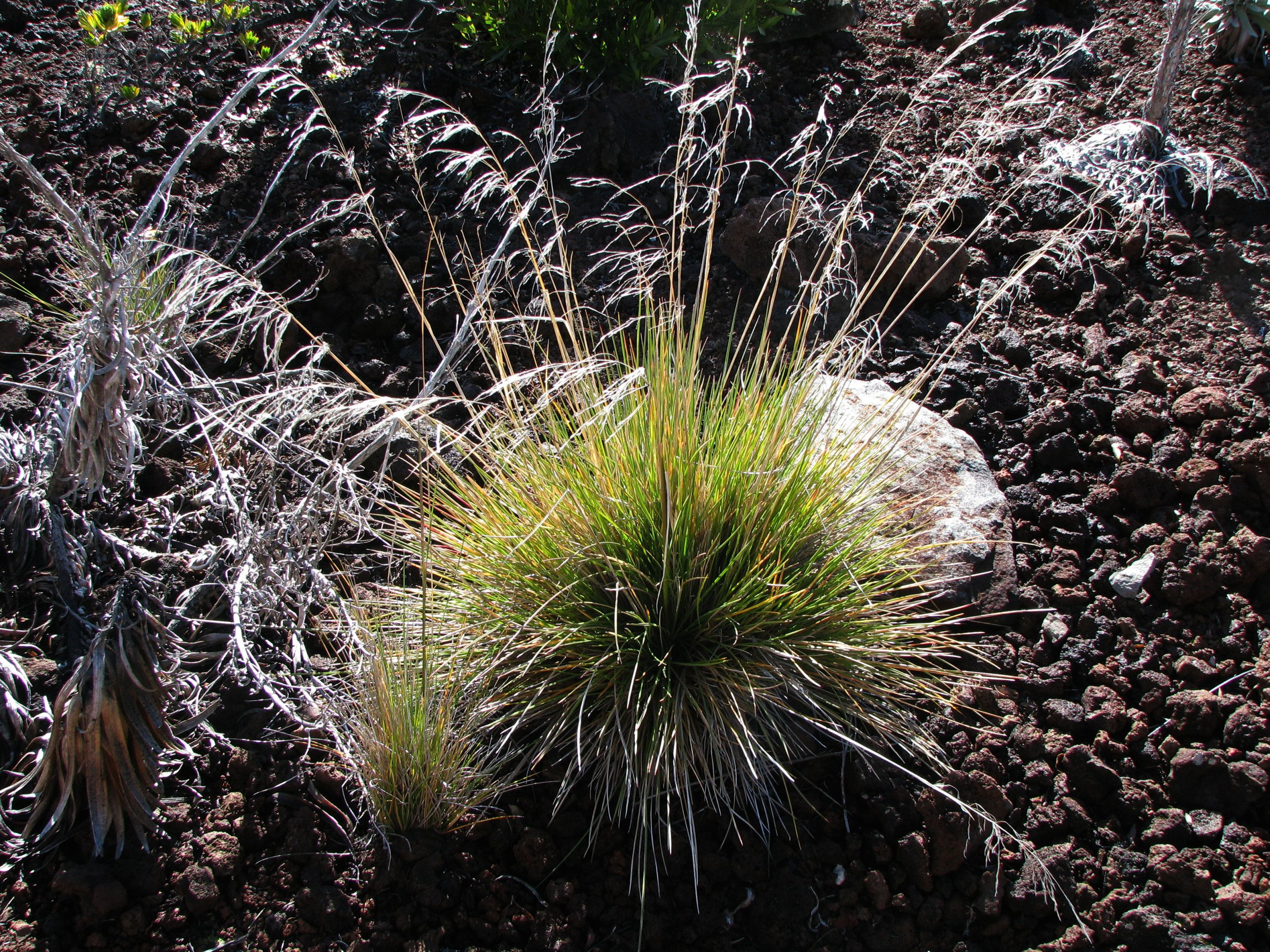 Hawaiian hair grass or tussock grass Poaceae (Gramineae) Endemic to the Hawaiian islands Haleakalā, Maui NPH00002